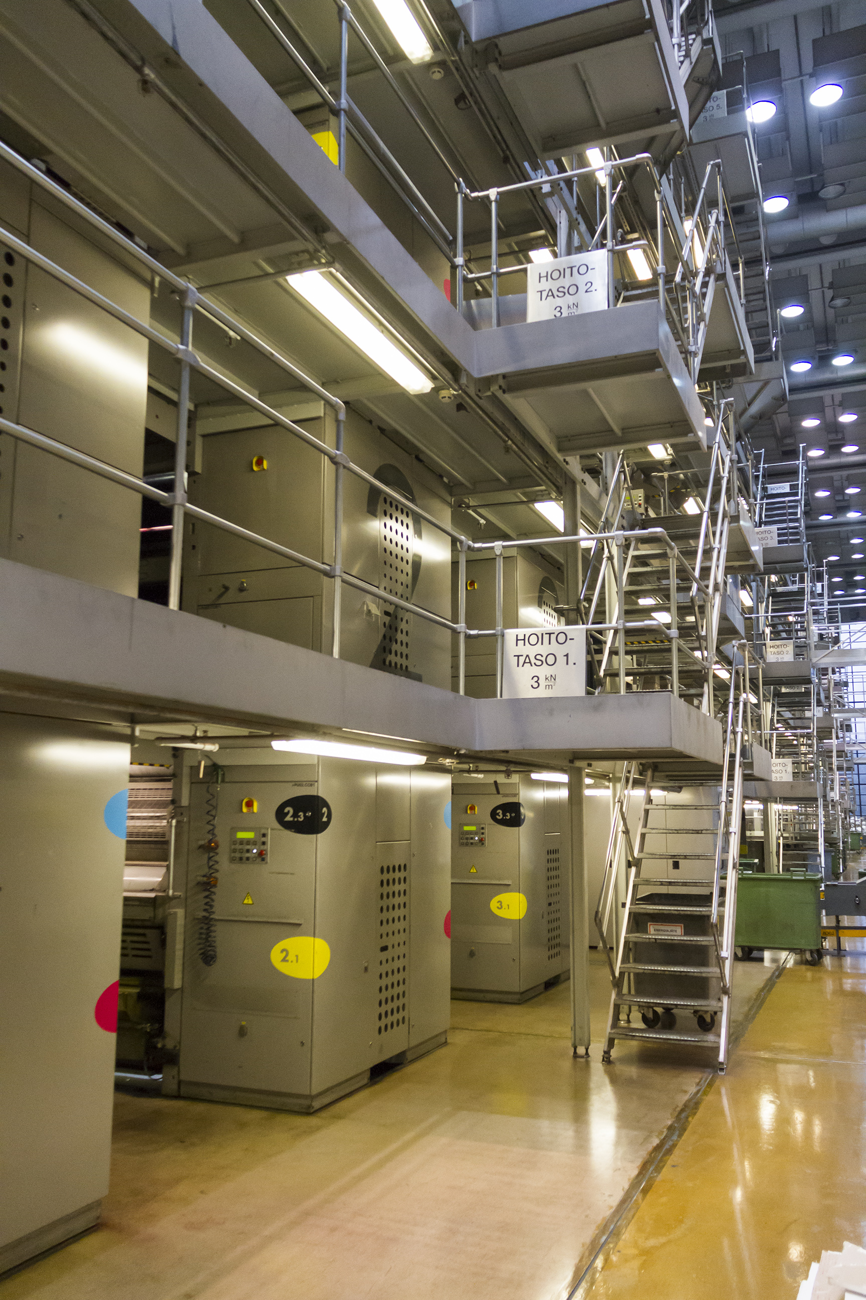 Man Roland Sanoman coldset offset newspaper printing machine in Sanoma newspaper press, Vantaa, Finland